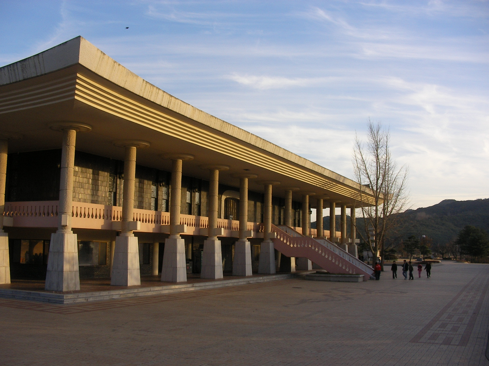 Gyeongju National Museum, Gyeongju, Gyeongsangnam-do, South Korea